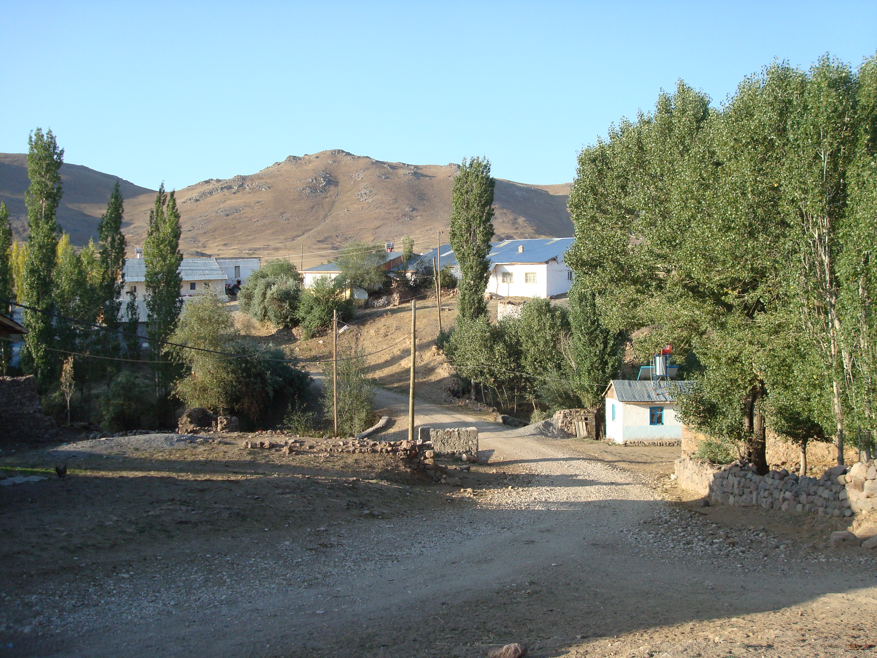 A view from Kuzyaka, Kangal.